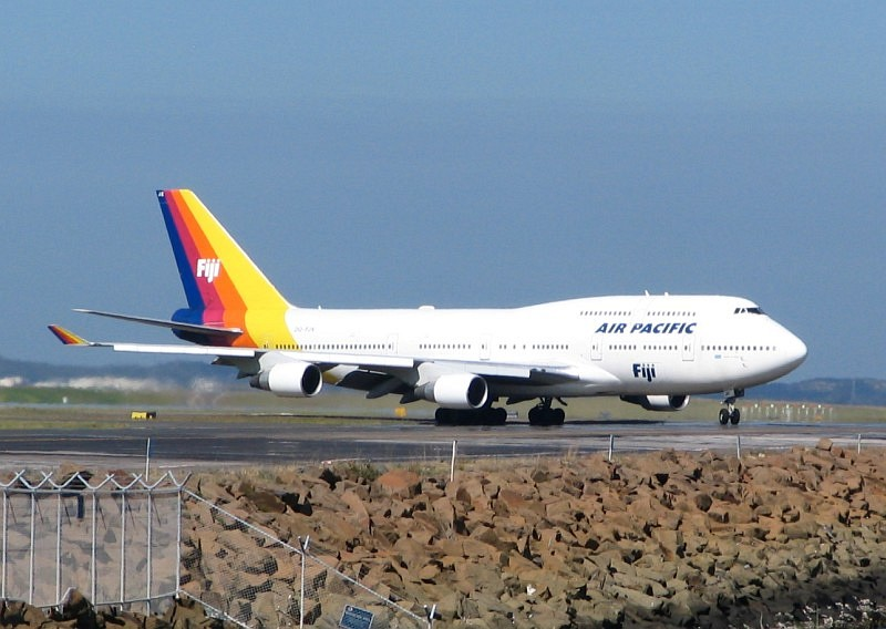 Air Pacific Boeing 747-400 DQ-FJK ("Island of Vanua Levu") taxing off runway 16R, shortly after touching down at Kingsford Smith airport, Sydney, Australia (SYD/YSSY). Own photo taken on 23 April 2005 from the beach viewing area.